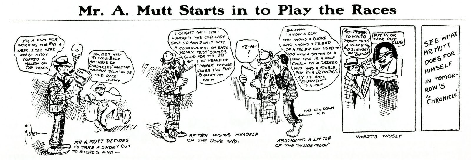 Mutt and Jeff comic strip by Bud Fisher from late 1907 (?). This strip predates the "Jeff" character.